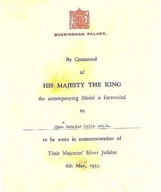 MBE - Abdullah Saleh Al Mulla